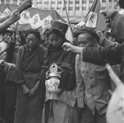 The Female Living Buddha and her parents were “criticised and struggled against”.